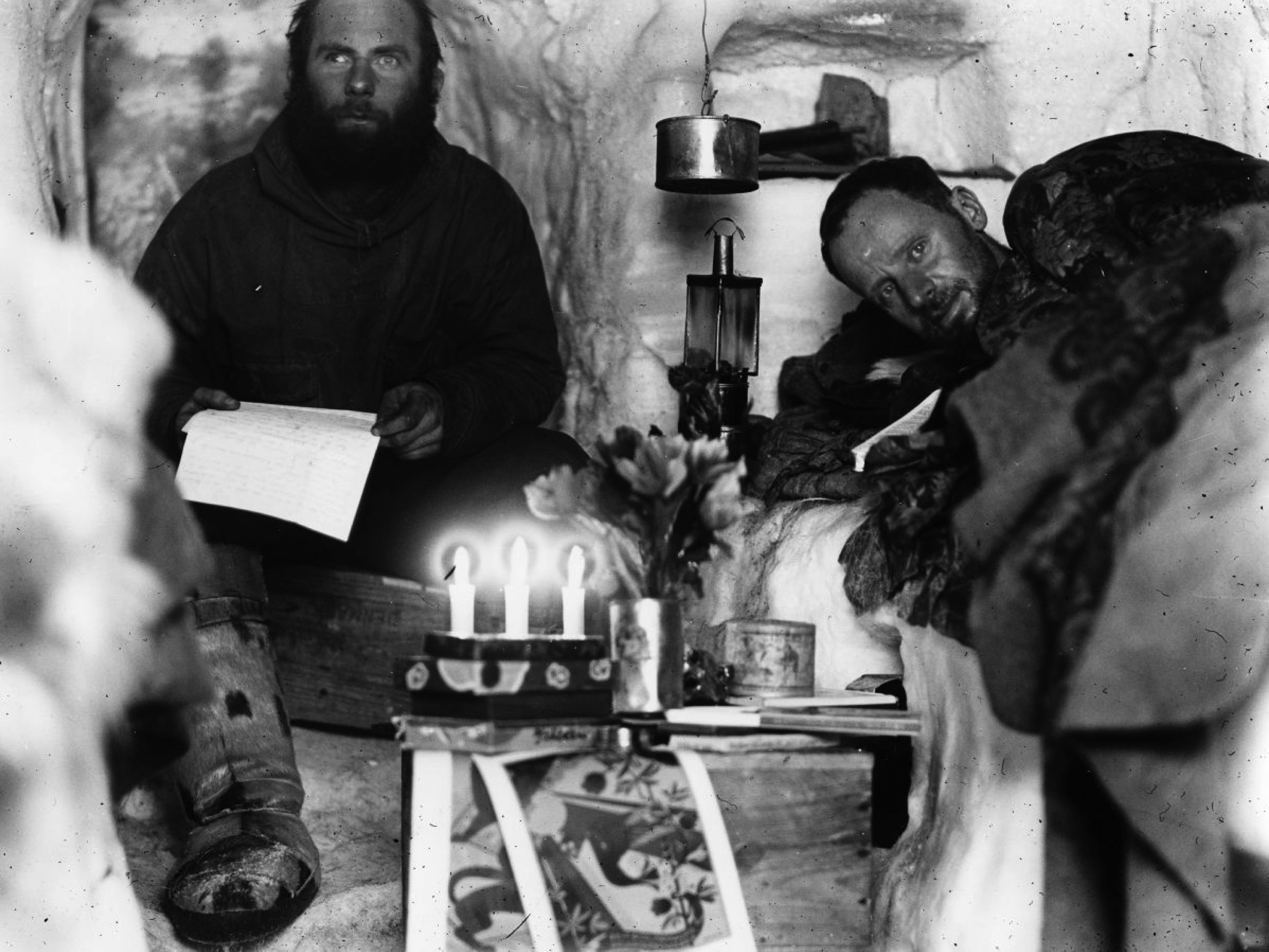 Photograph of the German expedition and overwintering in Greenland